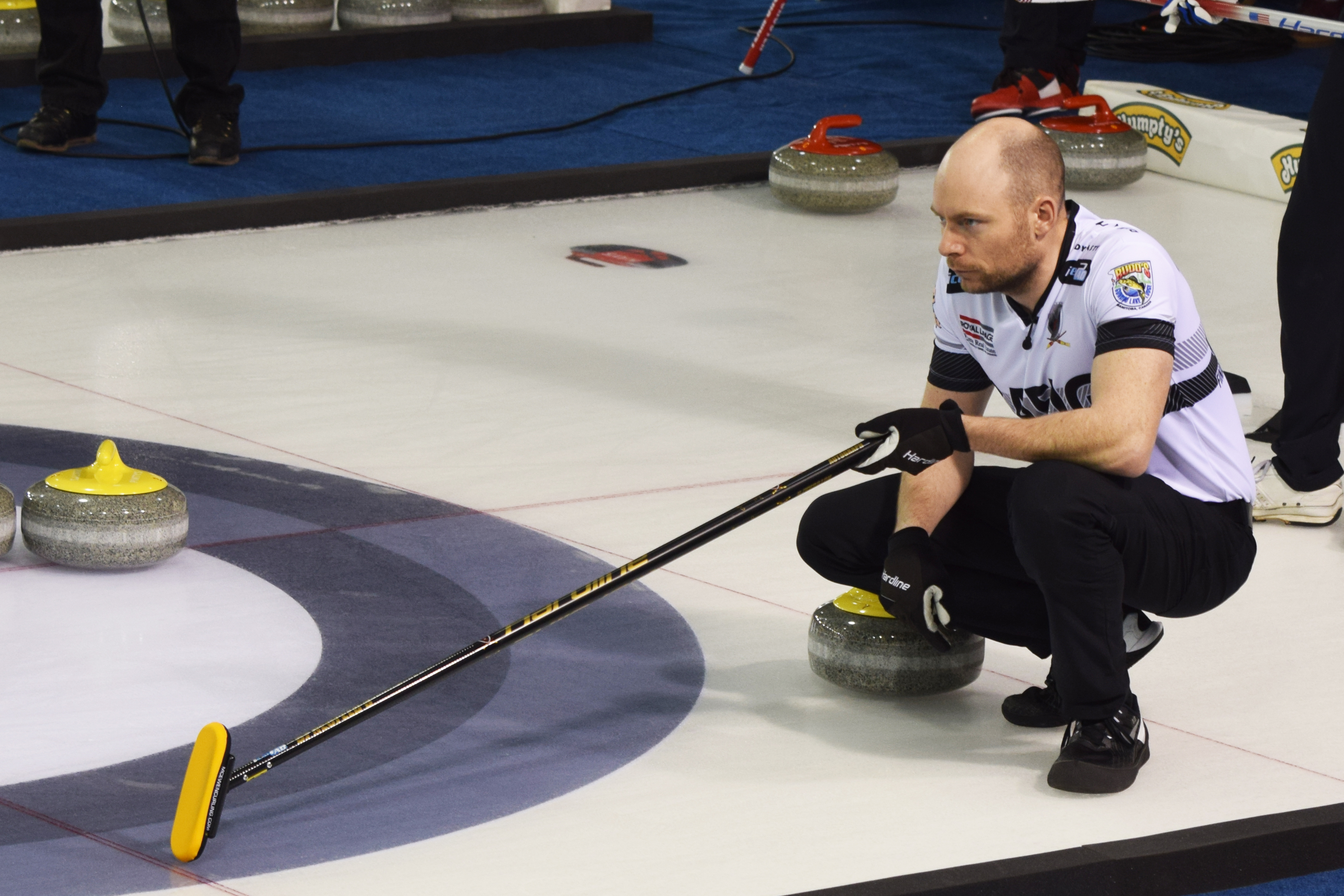 B. J. Neufeld at the 2018 Elite 10 Grand Slam of Curling event in Winnipeg, Manitoba.